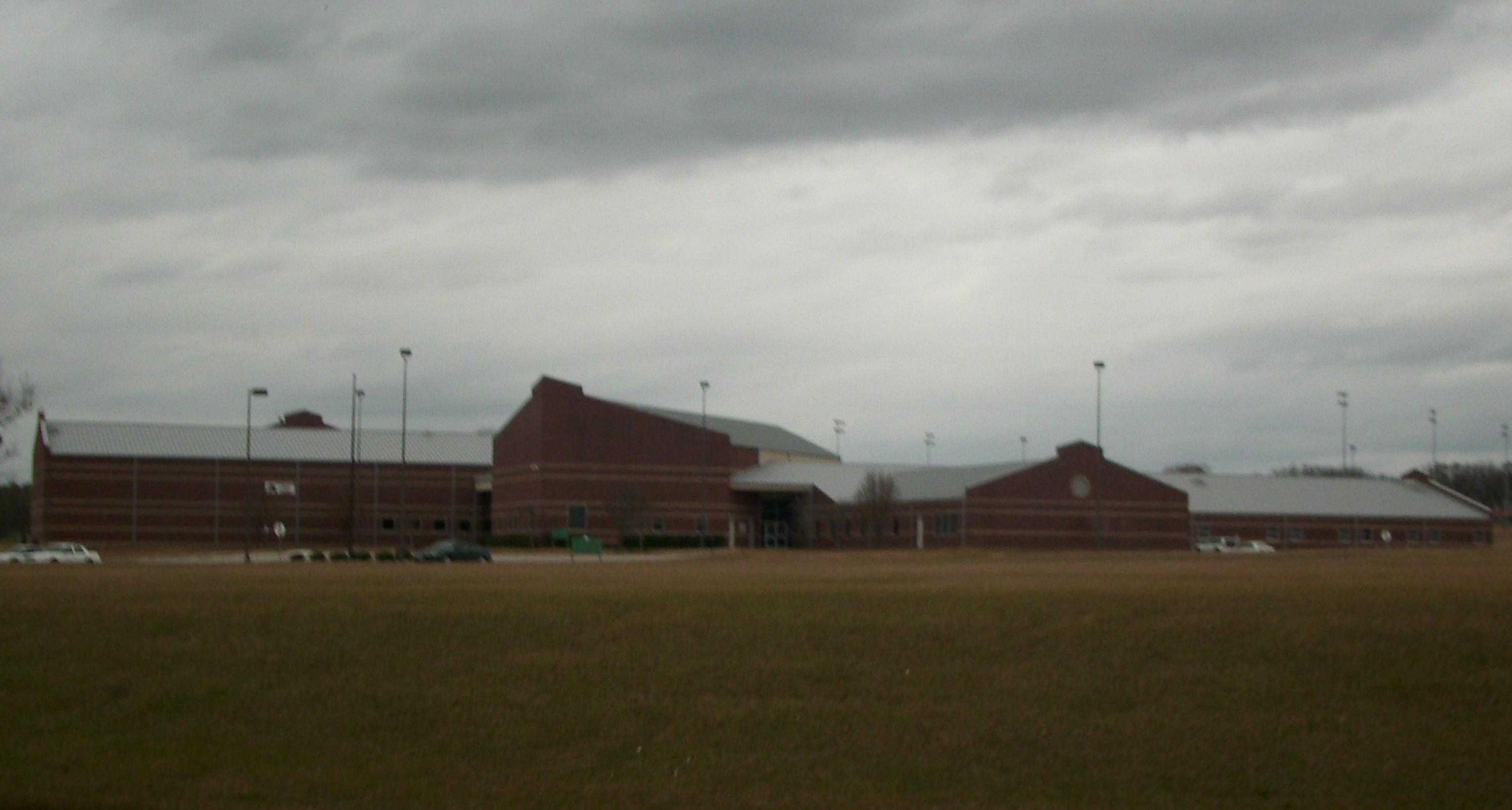 Harleton High School in Harleton, Texas. Taken by User:Acntx on December 13, 2008.